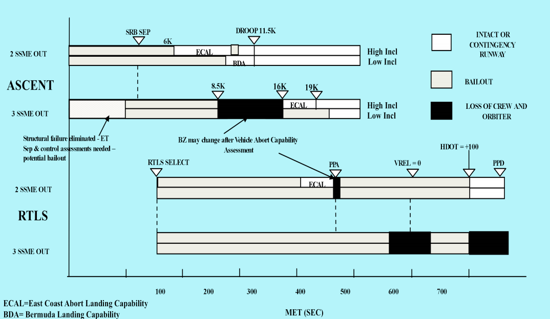 Space Shuttle abort options after STS-51L